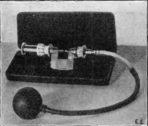 A Galton whistle, the first ultrasonic whistle or "dog whistle".. It was invented in 1876 by Francis Galton and used to test the hearing range of various animals. It consists of a whistle blown by the rubber bulb, with a small sound chamber whose size can be accurately adjusted by a plunger attached to a micrometer. The micrometer can be calibrated to give the frequency in hertz.